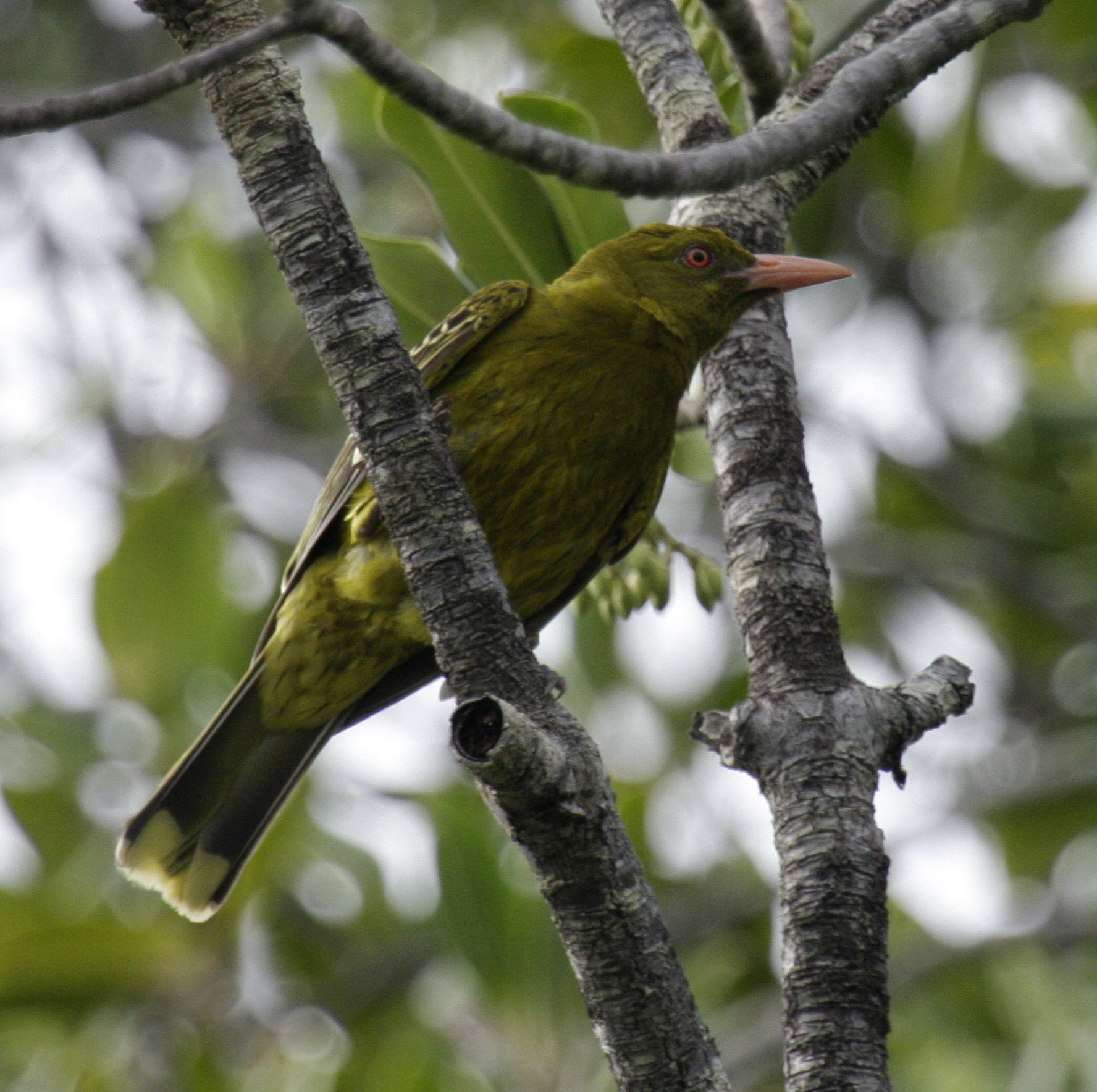 Yellow Oriole or Green Oriole, (Oriolus flavocinctus) Portland Roads, Cape York, N. Queensland, Australia